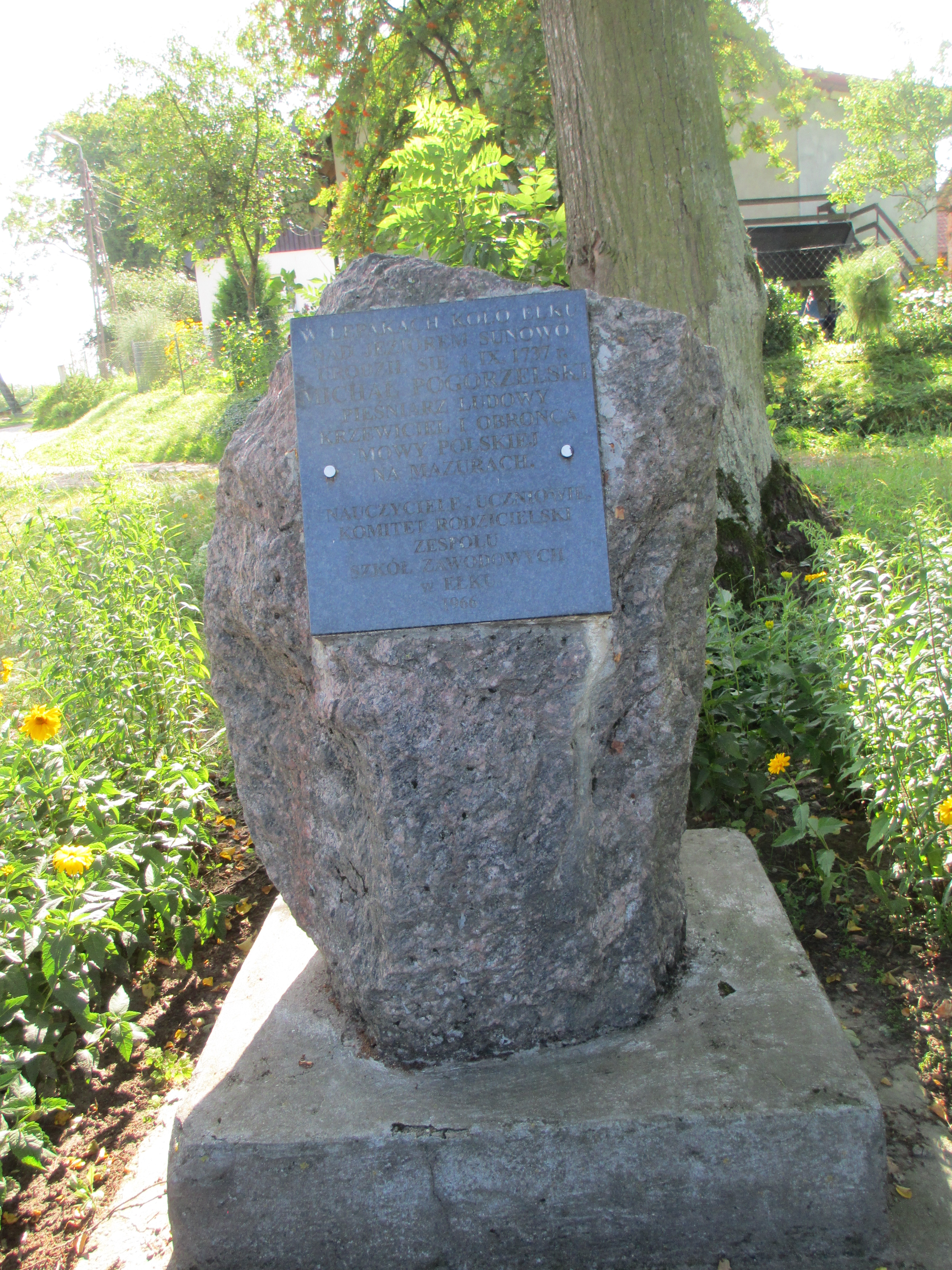 Lepaki Małe - gm. Ełk - Kamień pamięci M. Pogorzelskiego